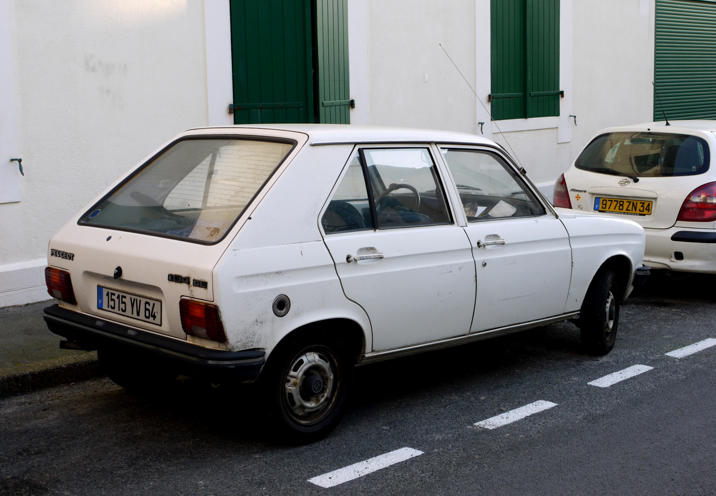 Peugeot 104 GL - phase II, most probably a post 1982 model.